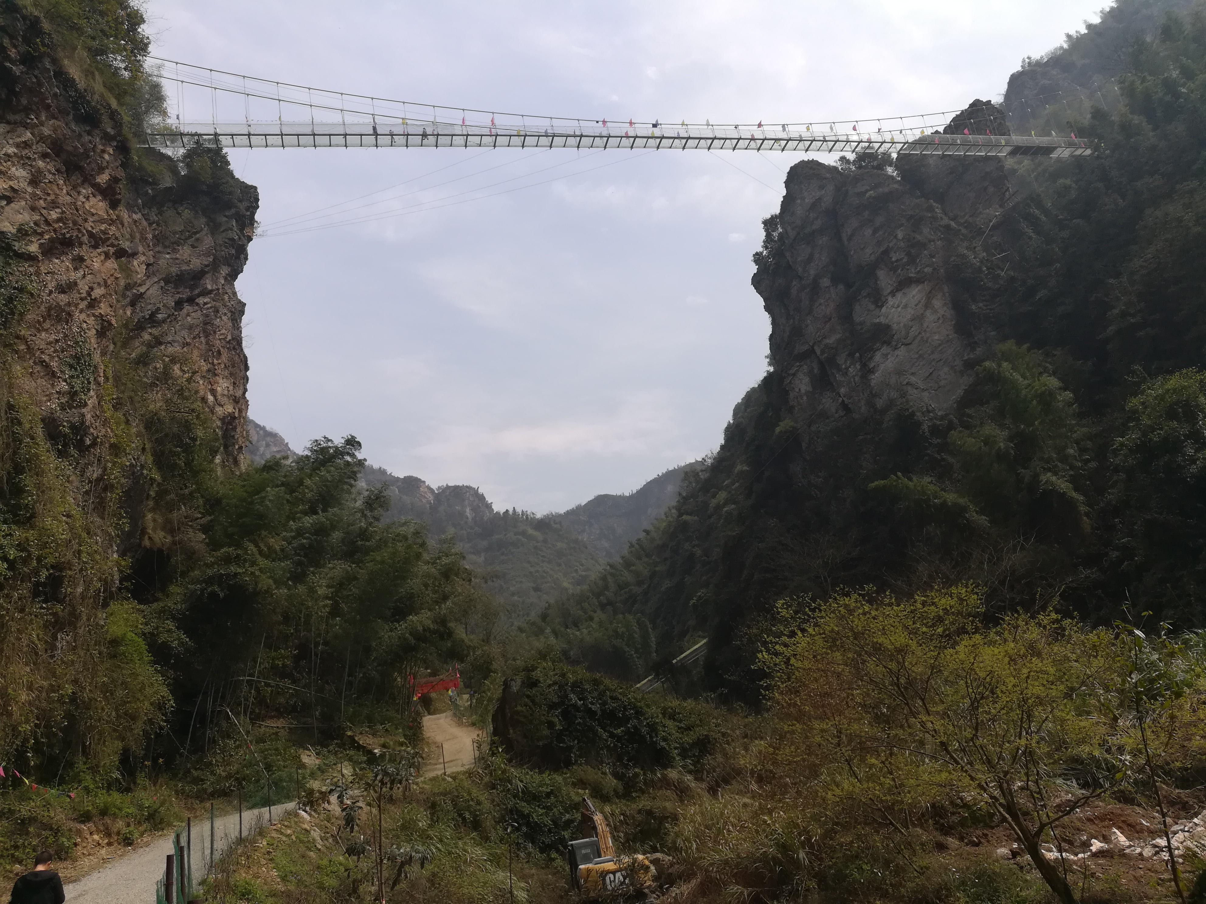 A distant view of the skywalk glass bridge in Longshan National Forest Park, Lianyuan, Hunan, China.